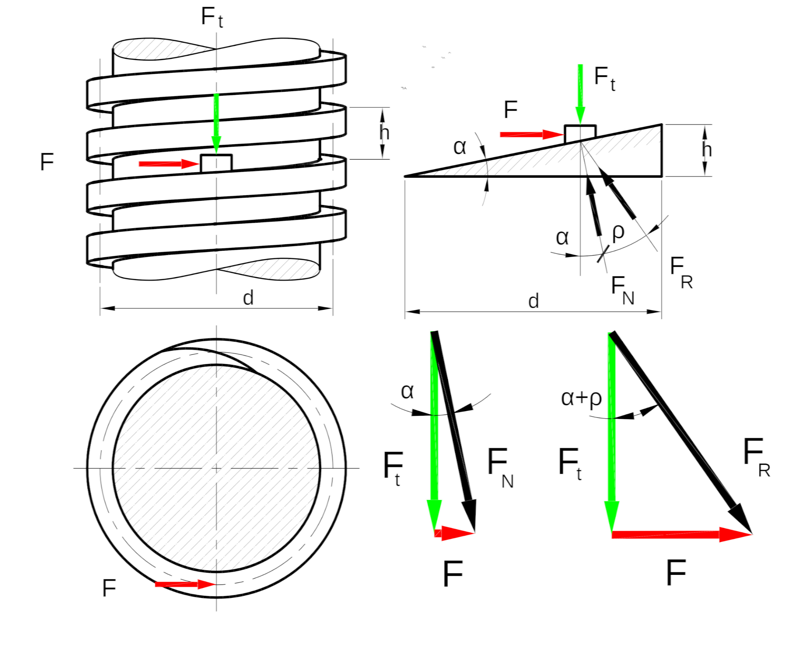 Stretched version of Laposmenet1